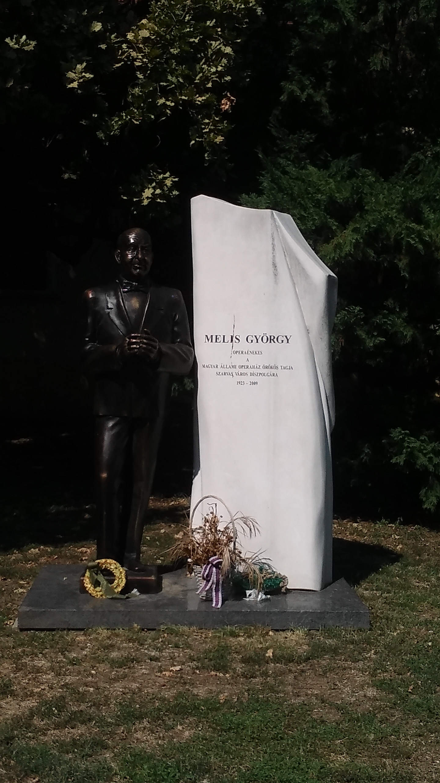 Szarvas, Melis György emlékműve